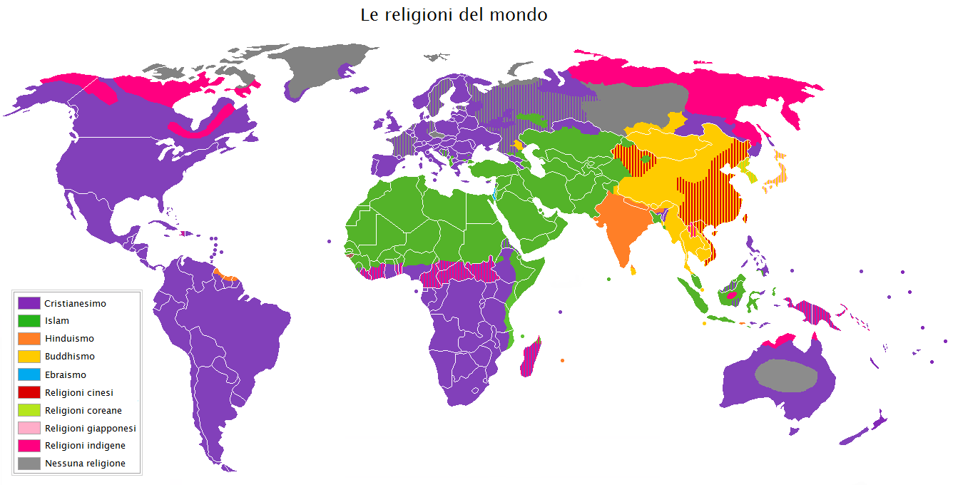 A map of the world, showing the major religions distributed in the world as of today. A different type of map which views only the religion as a whole excluding denominations or sects of the religions, and is colored by how the religions are distributed not by main religion of country etc.